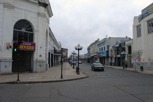 main comercial street of Talca, Capital of chile's VII region of maule